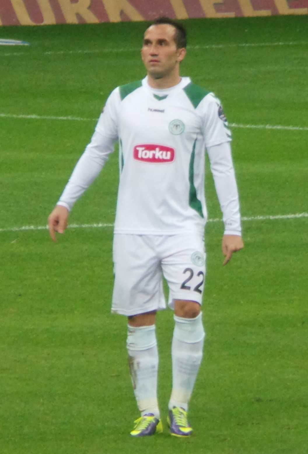 Teofanis Gekas